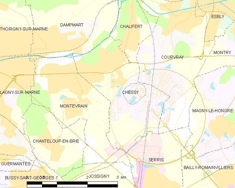 Map of French municipality Chessy